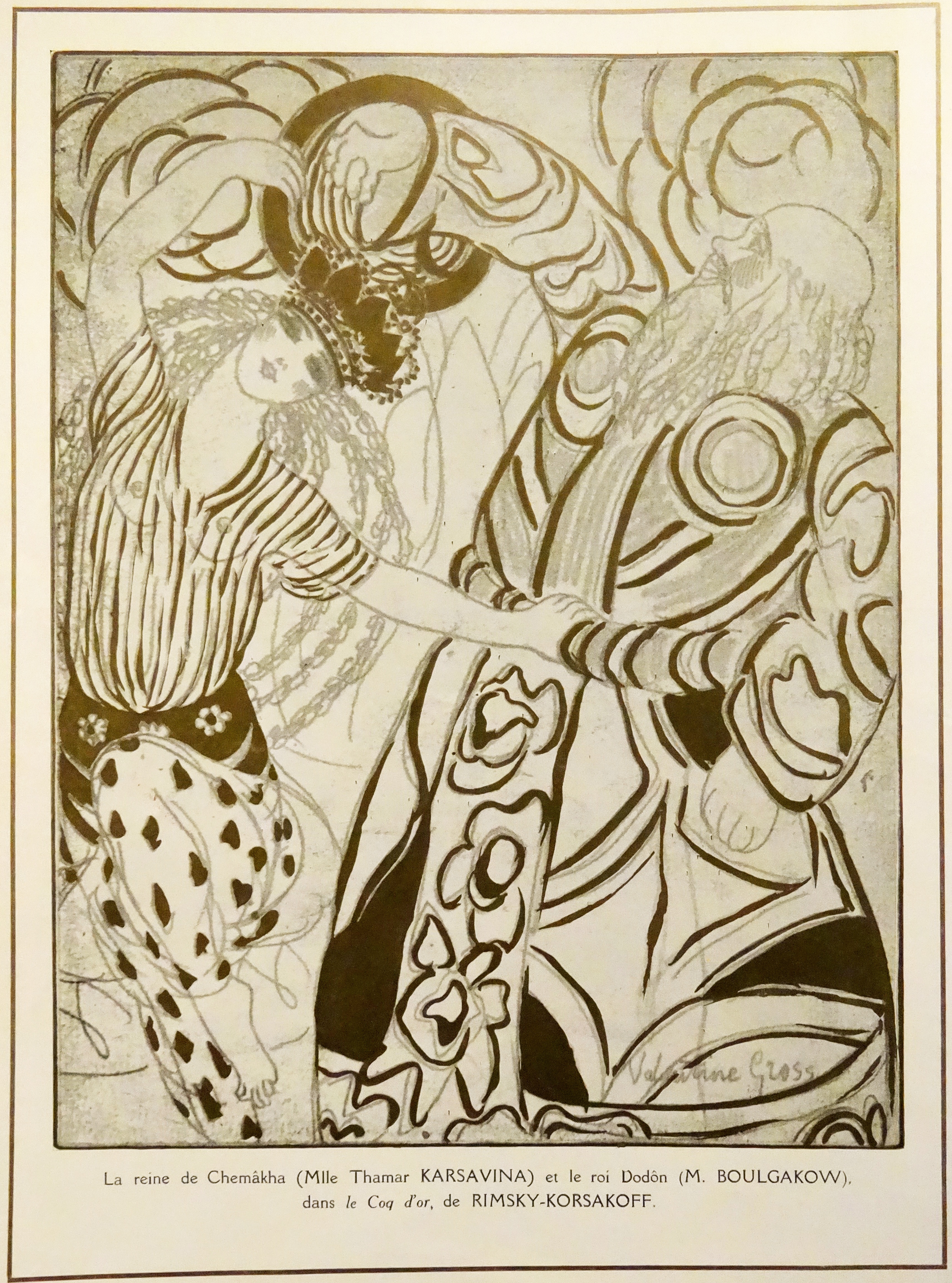 Illustration by Valentine Gross of the queen of Shemakha and king Dodon, characters of the 1914 Ballets Russes ballet "Le Coq d'Or", for the magazine Comoedia Illustré.